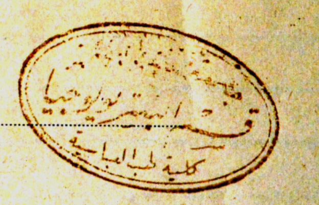 Stamp of Abbassia Faculty of medicine- Ibrahim Pasha University (1950-1952) on Microbiology examination booklet